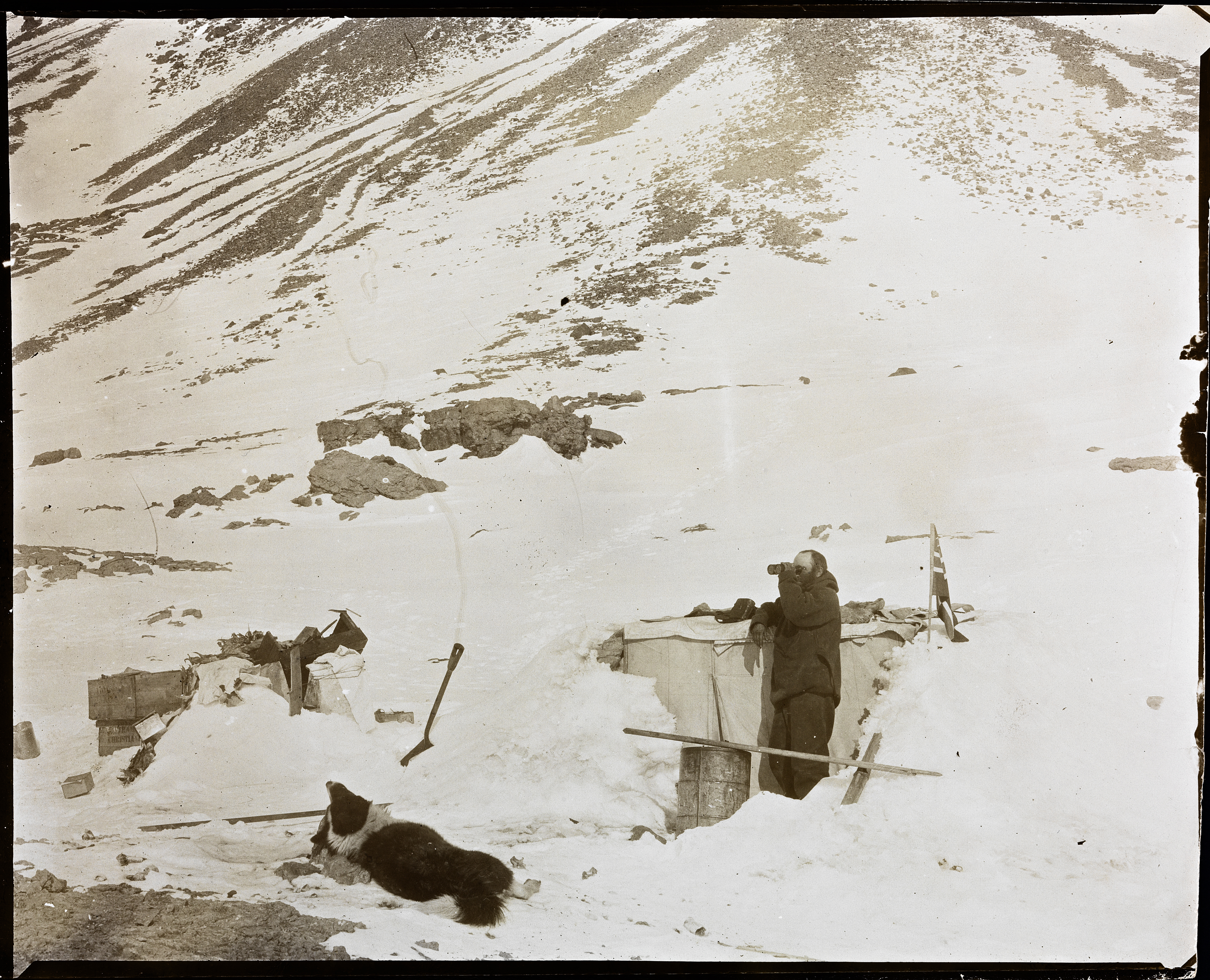 Beskrivelse / Description: 2. Fram-ekspedisjon: Nord-vest-Grønland og øyene nord for Øst-Canada : 1898-1902 / 2nd "Fram" expedition : Northwest Greeland and the islands North of East Canada Dato / Date: 1900 Sted / Place: Canada, Nunavut, Ellesmere Island, Bjørneborg Fotograf / Photographer: ukjent / unknown Digital kopi av original / Digital copy of original: s/h papirpositiv Eier / Owner Institution: Nasjonalbiblioteket / National Library of Norway Lenke / Link: Bildesignatur / Image Number: bldsa_SVpos_0056